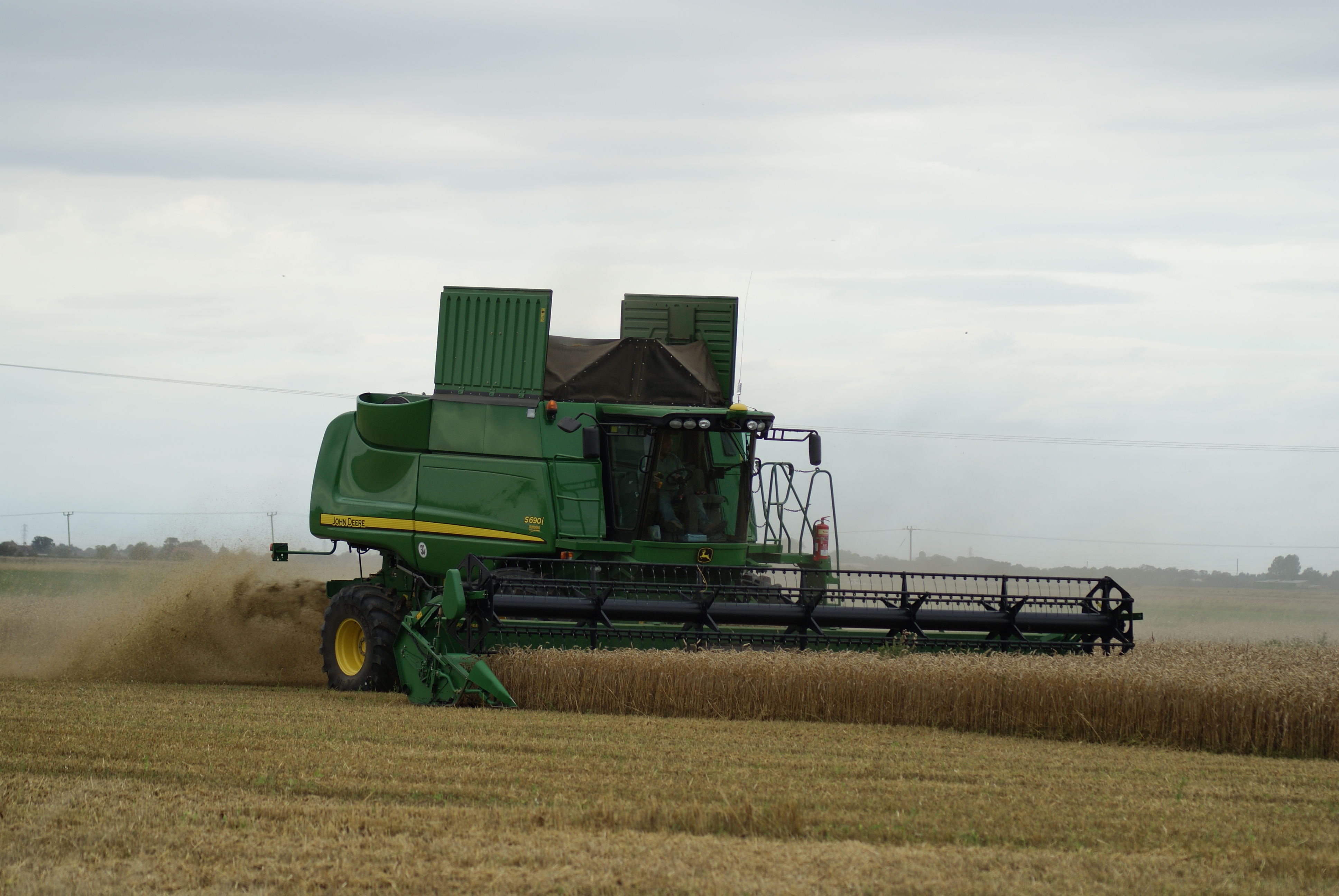 A John Deere S690i combine harvester on a field somewhere in Lincolnshire, England